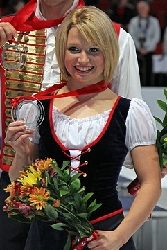 Kirsten Moore-Towers / Dylan Moscovitch at the 2010 Skate America